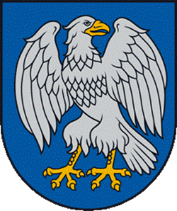 Coat of arms of Ērgļu novads, Latvia